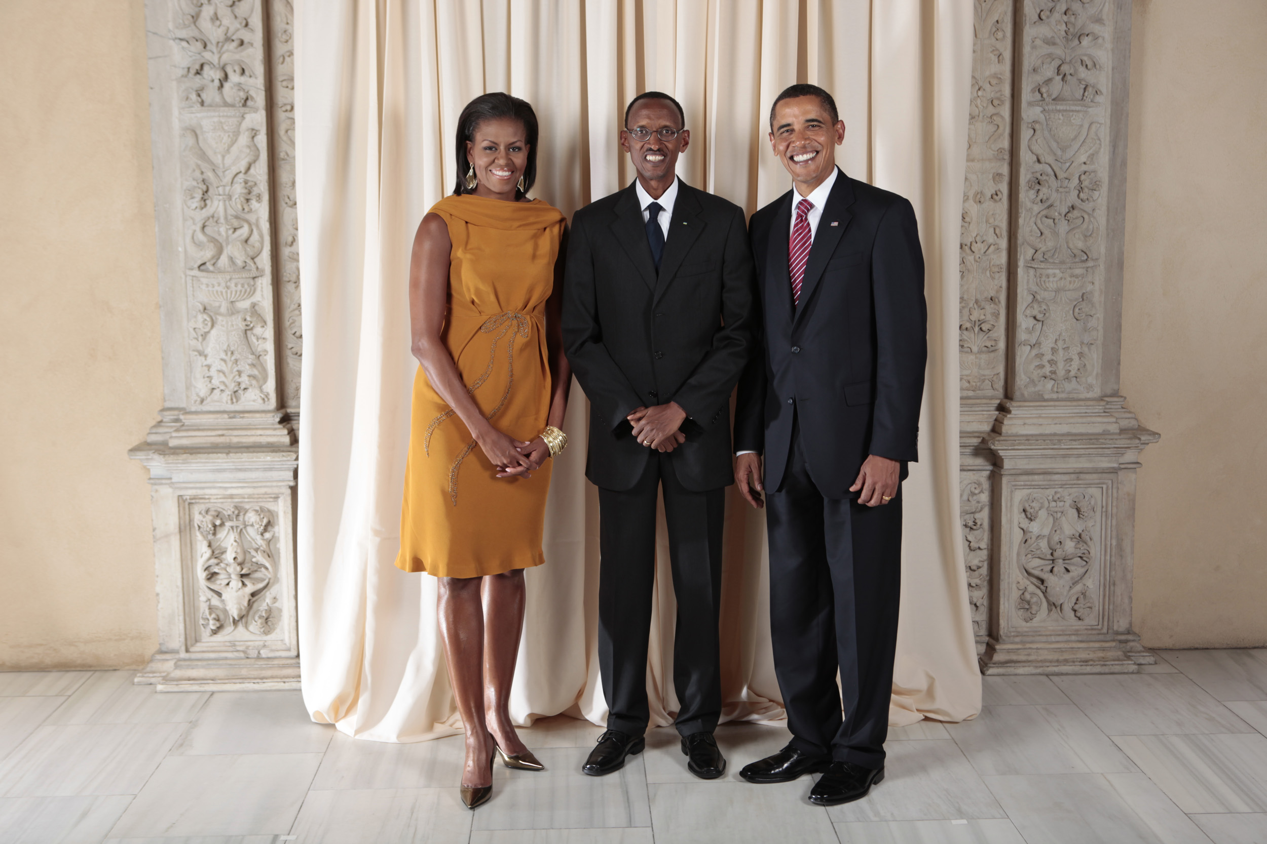 President Barack Obama and First Lady Michelle Obama pose for a photo during a reception at the Metropolitan Museum in New York with Paul Kagame of Rwanda.